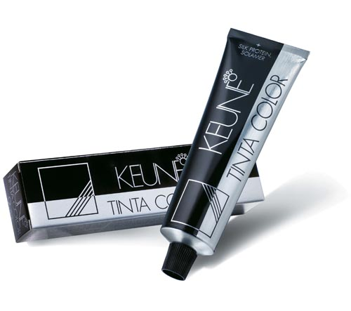 Keune Tinta Color is a professional permanent hair dye.